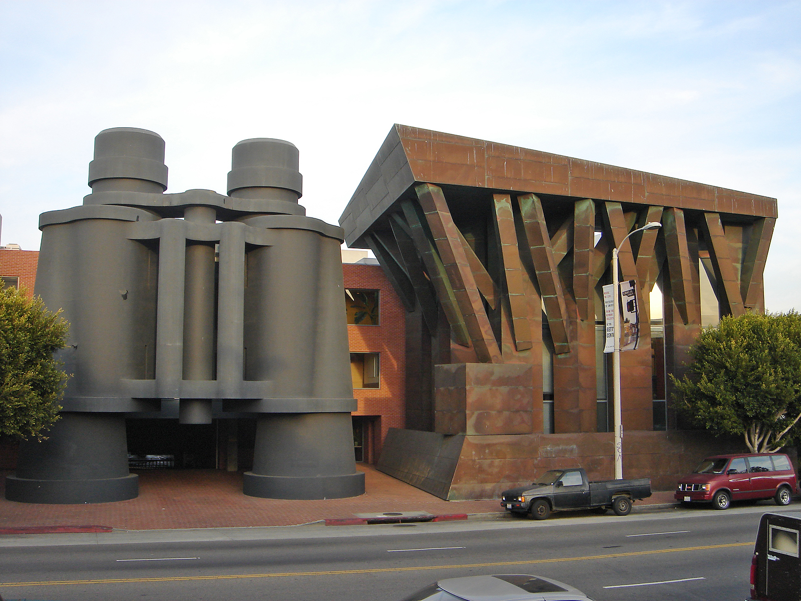 Another building by Gehry. There is a third part to this building too, which looks like a white office (which it is). The binocular element was designed by Claes Oldenburg and Coosje van Bruggen; there are meeting rooms behind it.